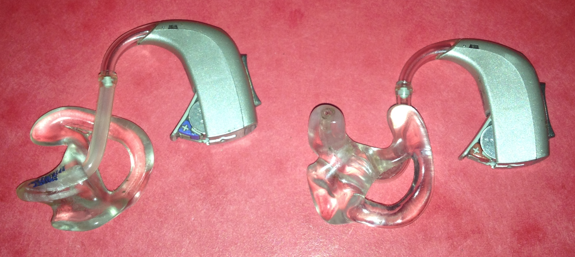 Two Oticon Spirit Zest digital BTE (Behind the Ear) hearing aids. The coloured tabs in the battery doors are a visual aid to help users put the right aid in the right ear: The blue tab indicates the unit for the left ear, the red tab indicates the unit for the right ear.